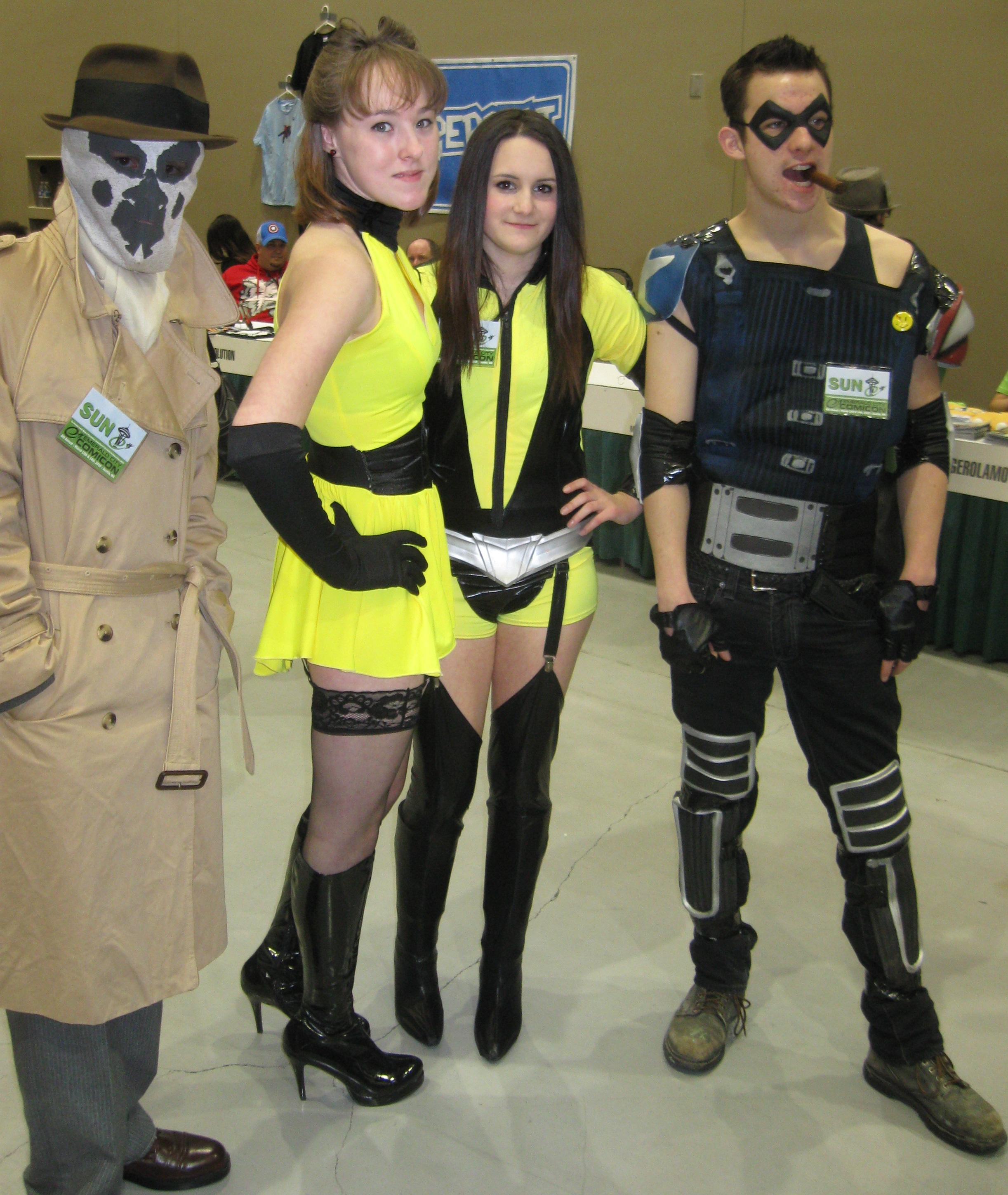 Watchmen cosplay at Emerald City Comicon 2010. Taken on March 14, 2010.